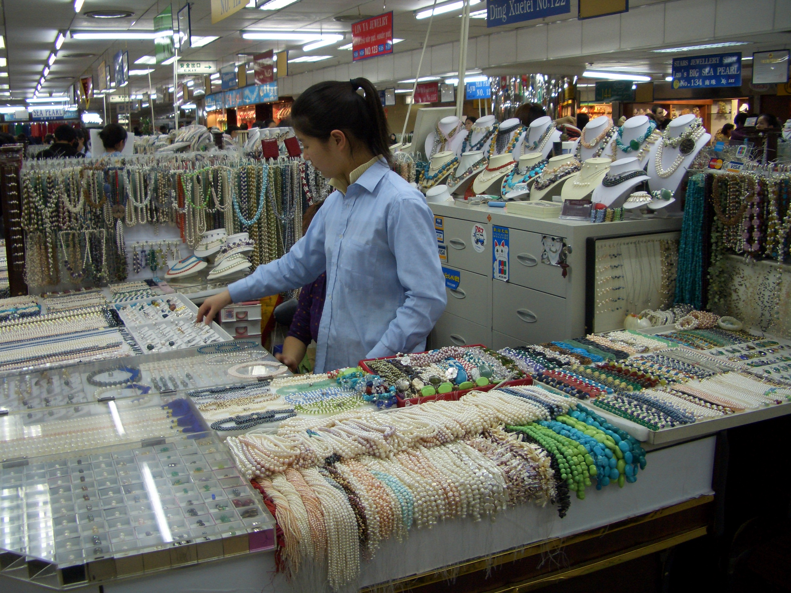 Photo taken in 2004 at the famous "Pearl Market" in Beijing.